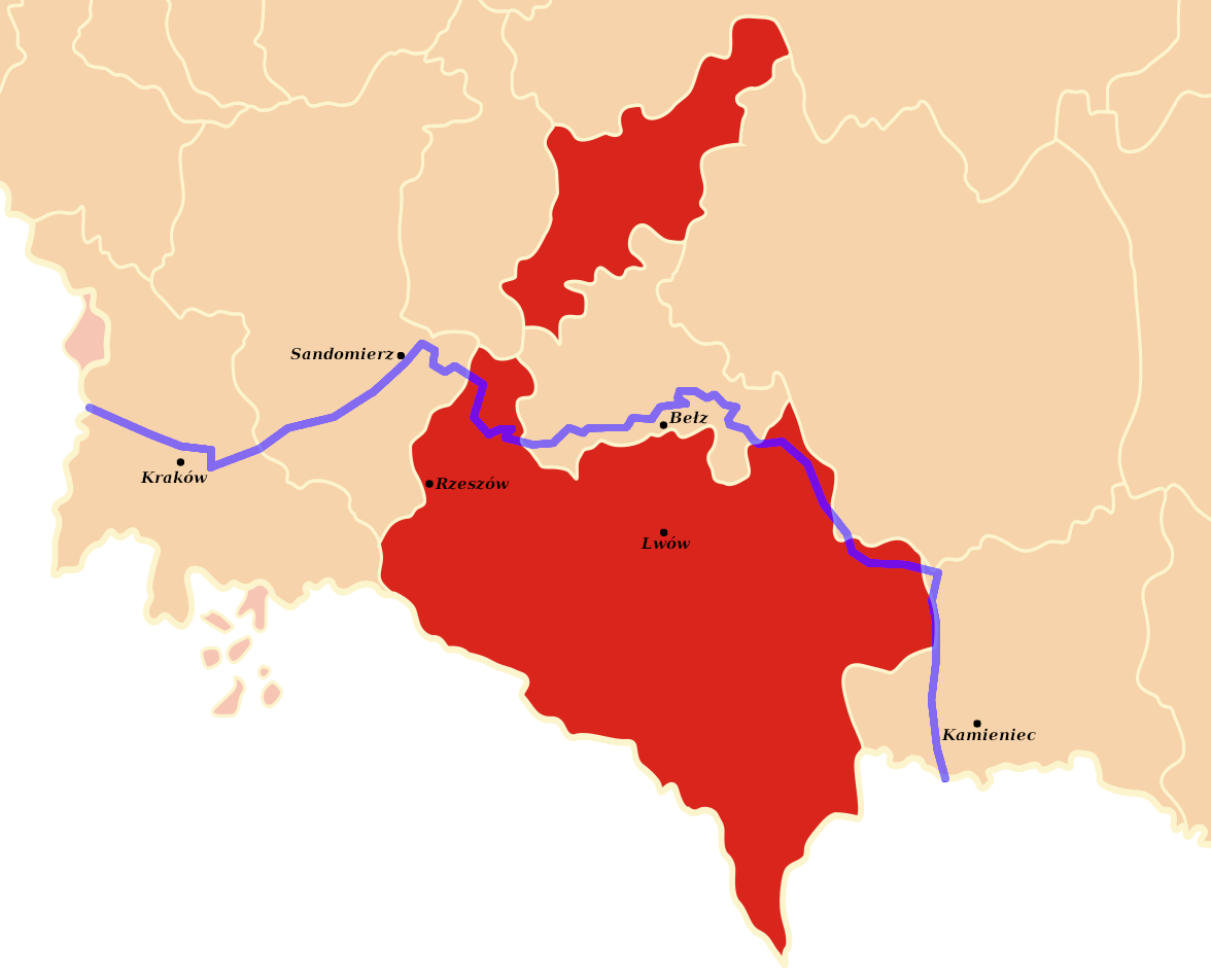 Borders of Austrian Galicia (blue) imposed on pre-1772 Voivodeships; Background: File:RON województwo ruskie map.svg